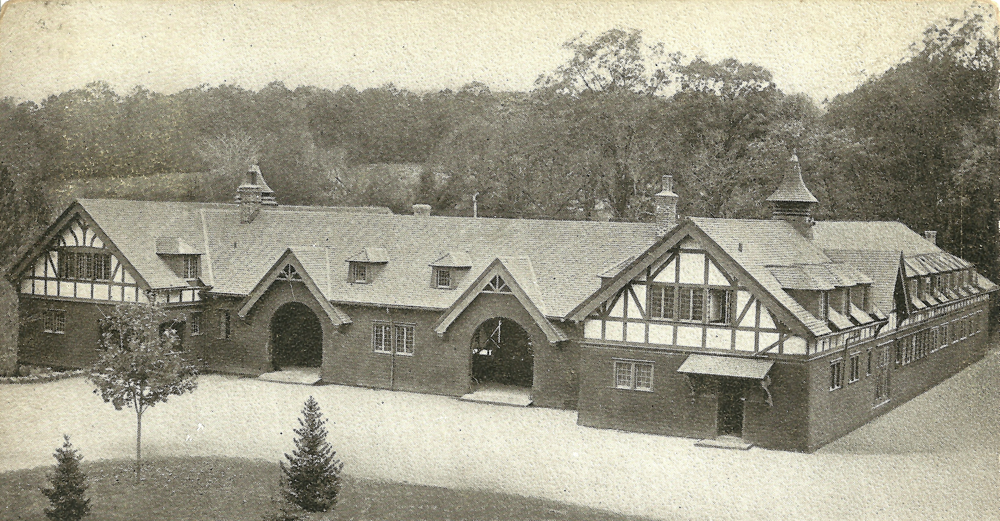 The Briarcliff Lodge garage c. 1911.